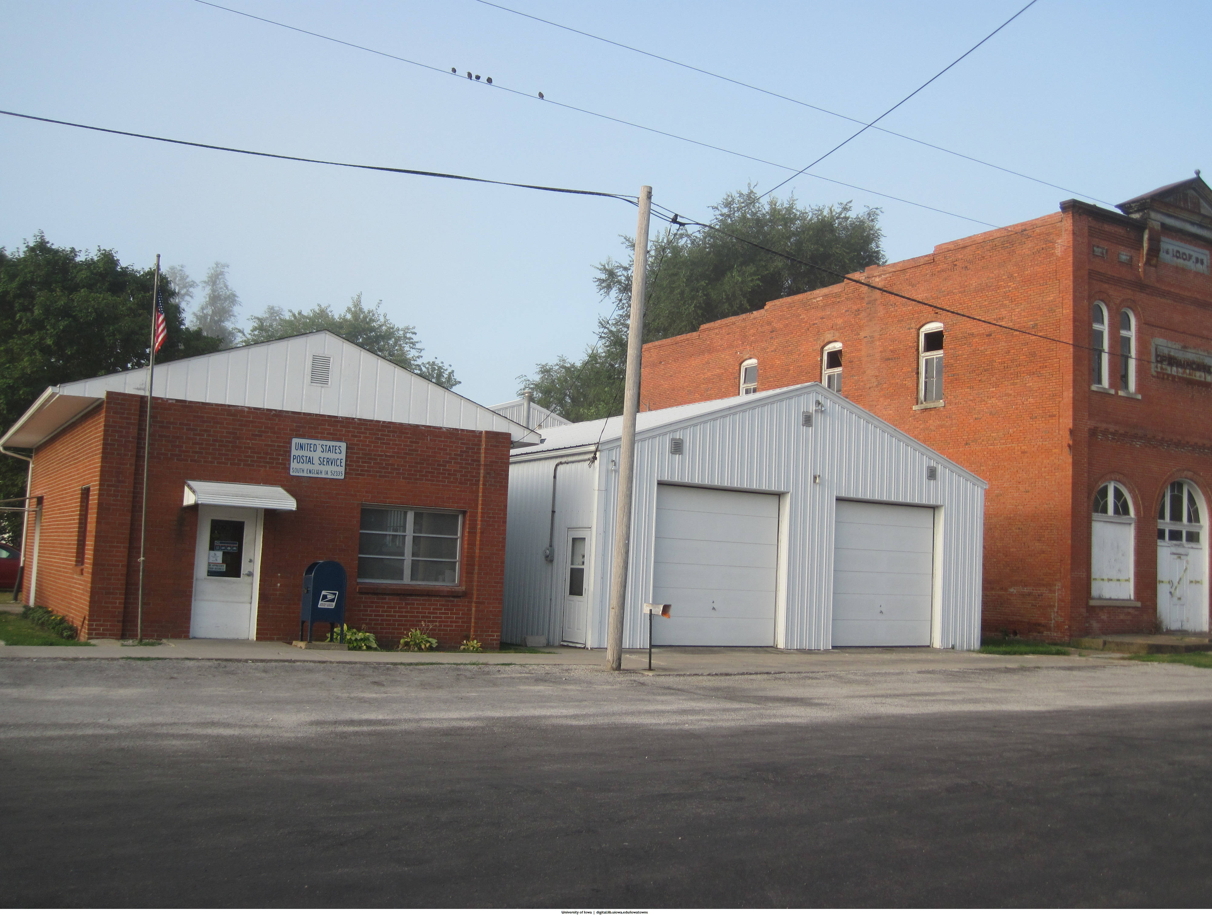 This picture shows the South English, Iowa post office and Odd Fellows Hall as they appeared in August of 2013.